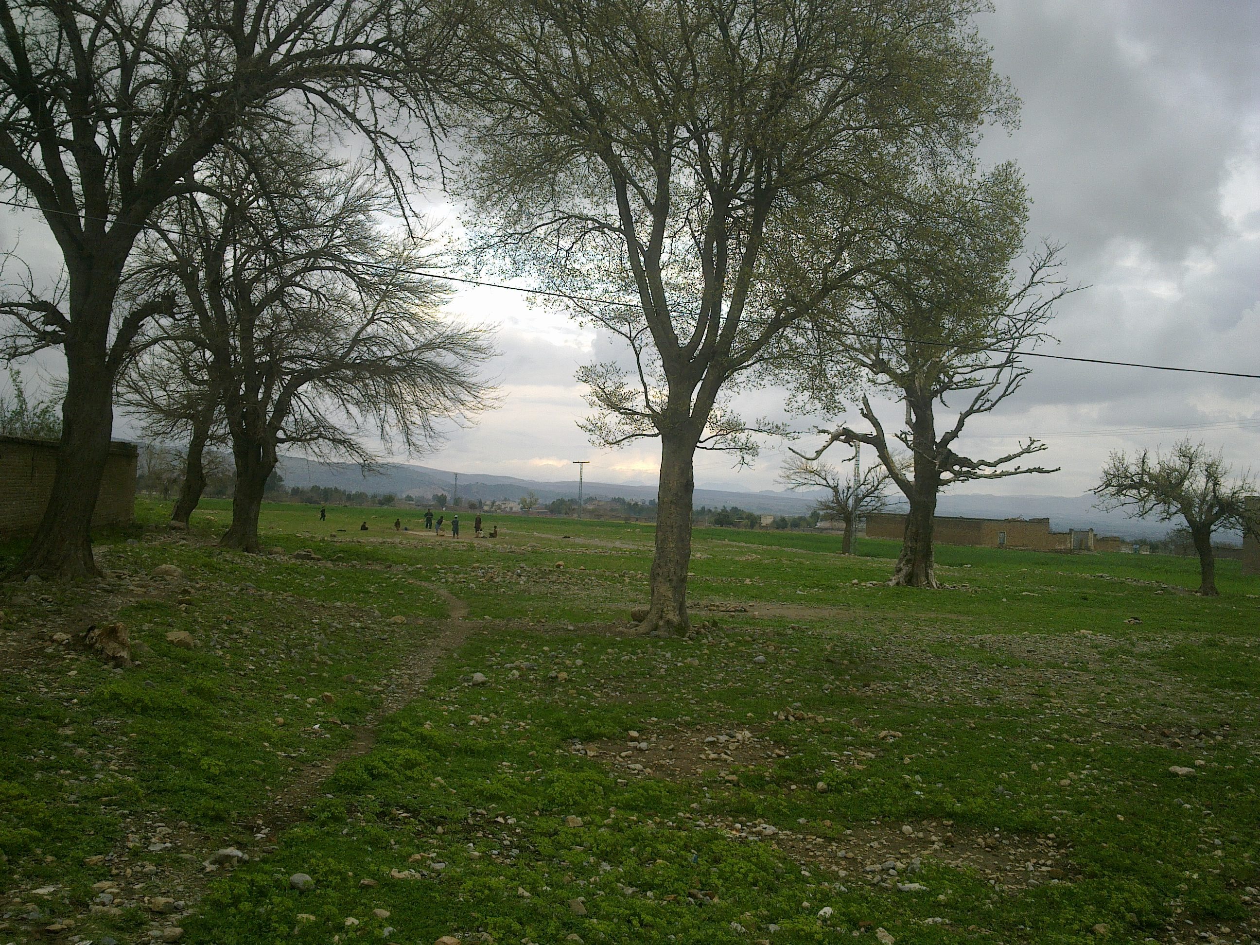 mula bagh sight